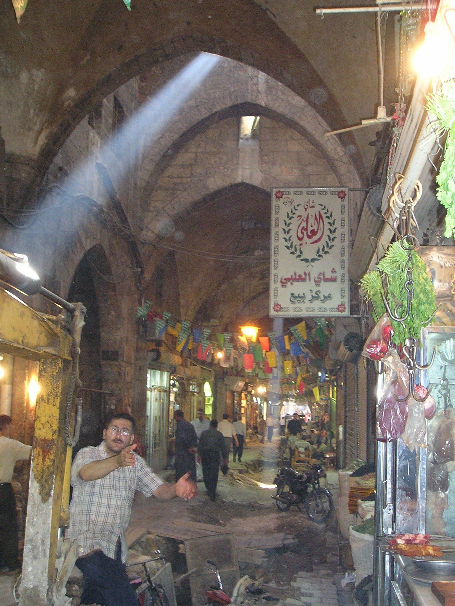 Aleppo, Syria - the "main" street of the souqو Suq al-Farrayin سوق الفرّايين